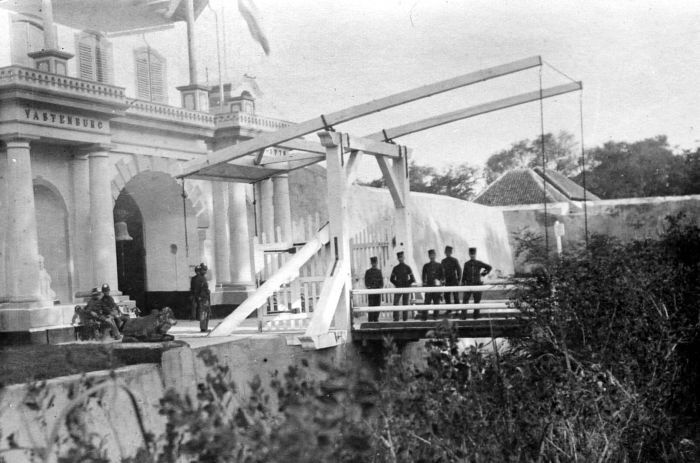 Original description from Tropenmuseum is Militaire patrouille te Djambi, op de ophaalbrug van een koloniaal gebouw, it is actually an error. The building is actually Fort Vastenburg, Surakarta